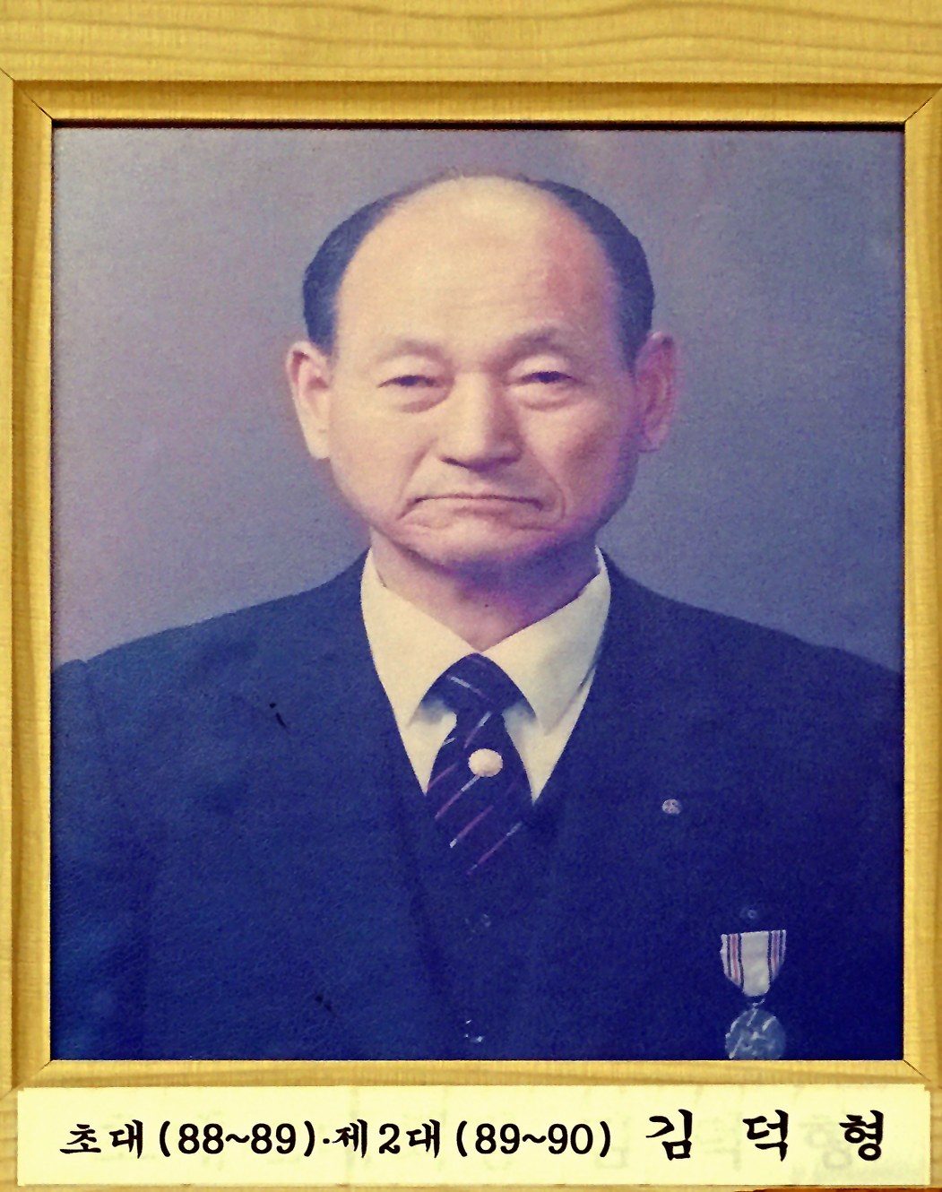 Kim Deok-hyeong - Memorial Hall for the U.S. Airmen Killed In Action During World War II is dedicated to the 11 U.S. Airmen who were killed when their B24 crashed into the mountain peak on Namhae returning from a bombing mission early in the morning of August 8, 1945, after being damaged by Japanese artillery, and to Kim Deok-hyeong, who single-handedly buried the 11 men, used his own funds to build a monument at the crash site, and establish the Memorial Hall where ceremonies are still held each year for the Airmen.